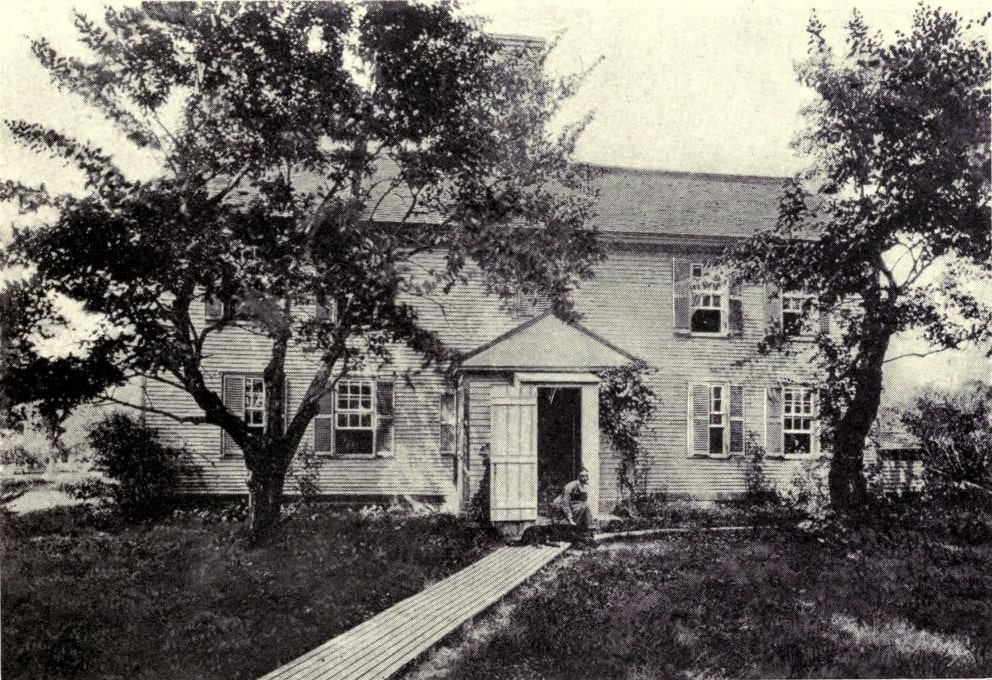 The Ministry House on the Phillips Academy campus. Home of Rev. Samuel Phillips and Rev. Jonathan French of the South Church in Andover.